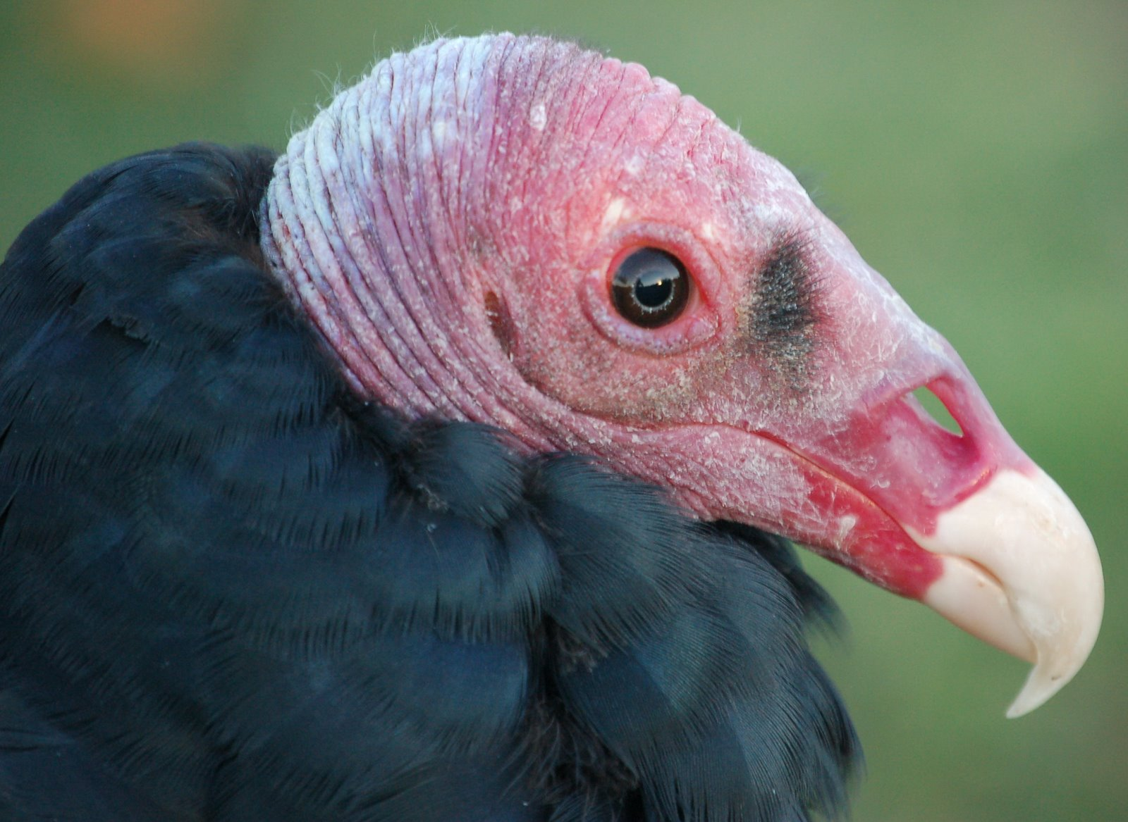 Cathartes aura BUITRE CABEZA ROJA